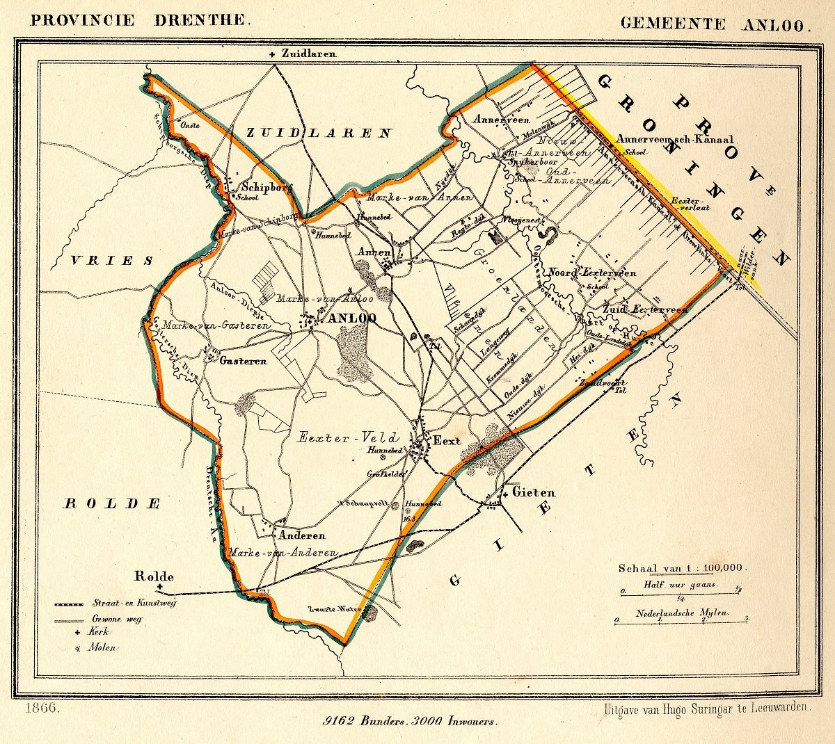 Map from 1866 of the former municipality of Anloo (Province of Drenthe, Netherlands). On January 1, 1998 Anloo, together with the (former) municipalities of Rolde, Gasselte and Gieten merged into the new municipality of Aa en Hunze.